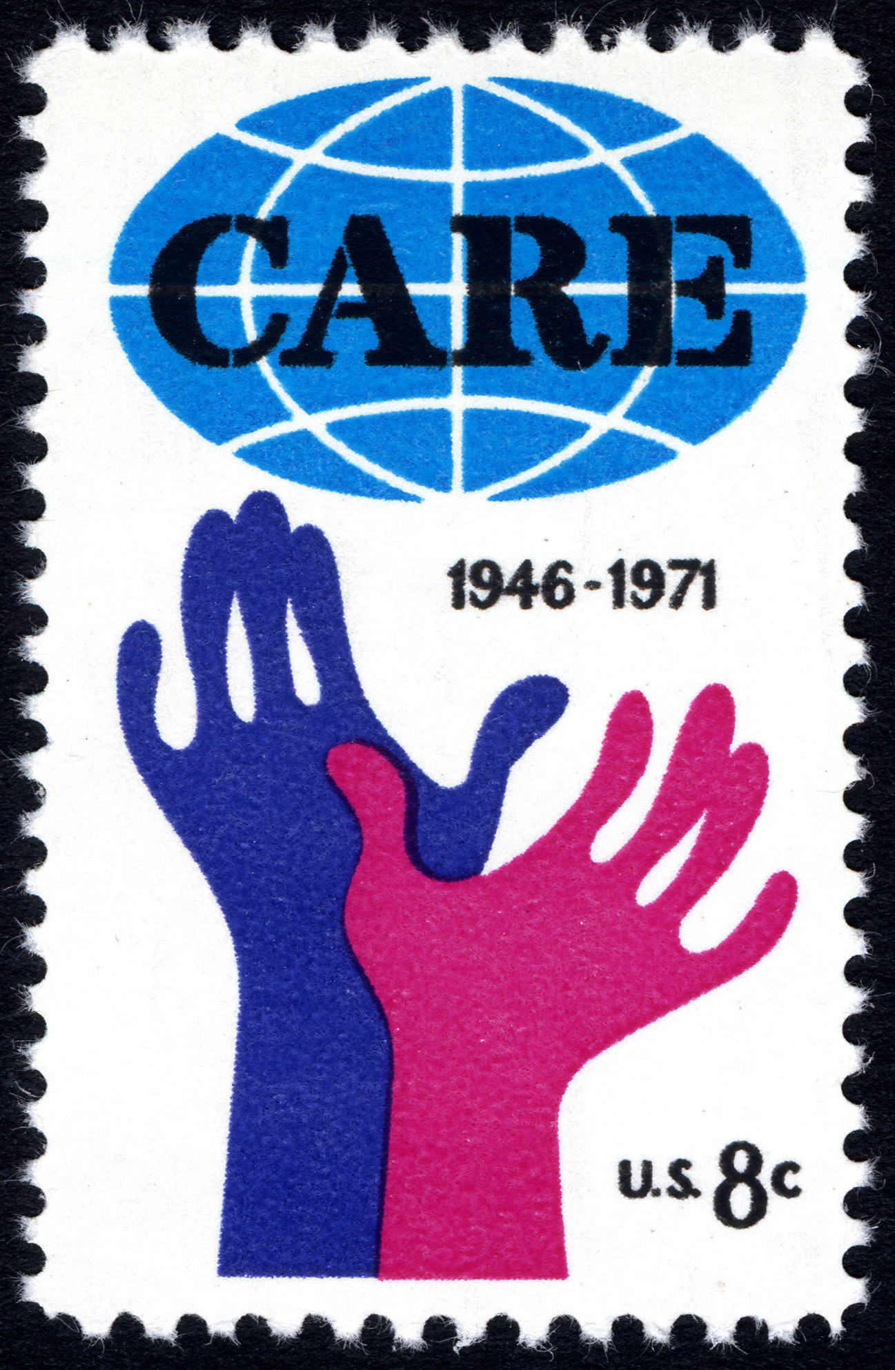 CARE - 1945-1971 - 8-cent 1971 issue U.S. stamp. The stamp was issued to mark the 25th anniversary of CARE, a humanitarian aid organization that focuses on relief work.